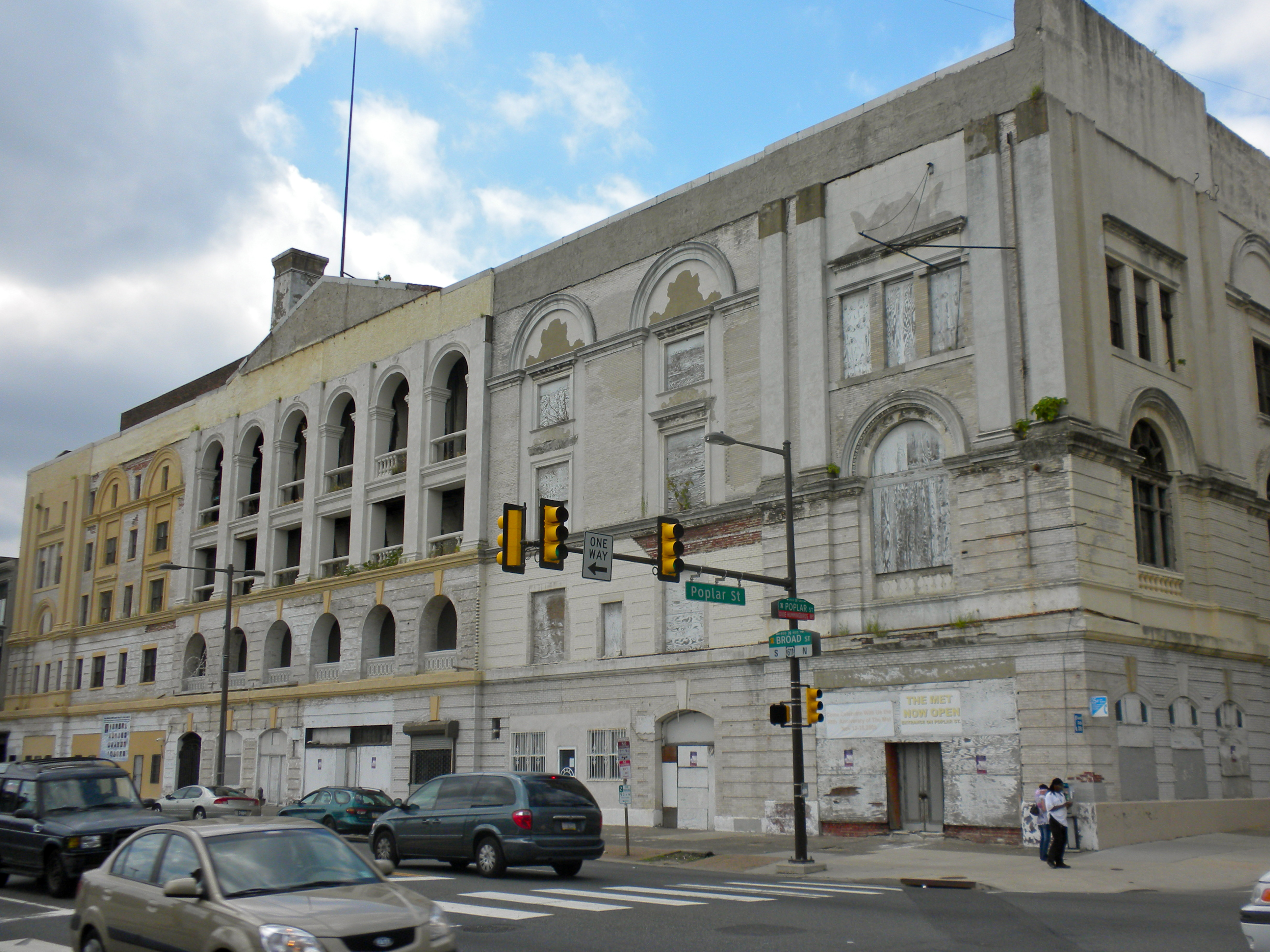 Philadelphia's Metropolitan Opera House on the NRHP since February 1, 1972. At 858 North Broad St. in the Francisville neighborhood of North Philly. Once run by Oscar Hammerstein I, but doesn't look anything like an opera house now